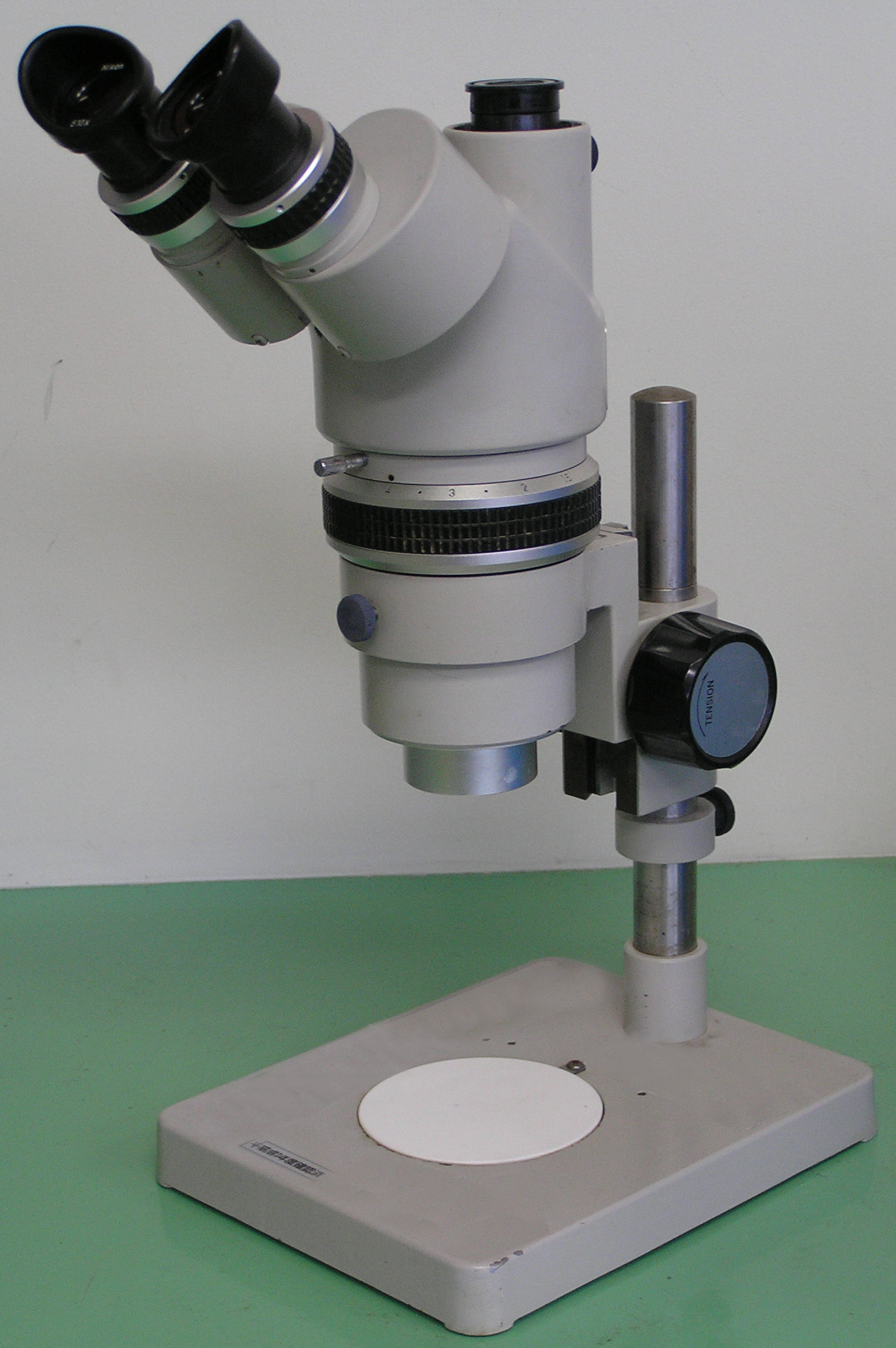 typical optical stereo microscope for academic use in 1980-1990s,Nikon SMZ-10